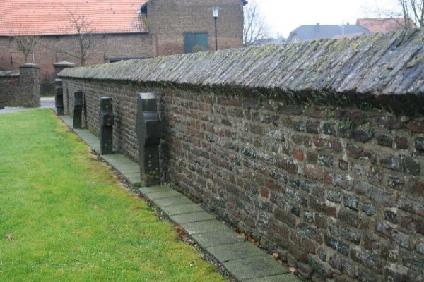 Cultural heritage monument No. 5 in Selfkant